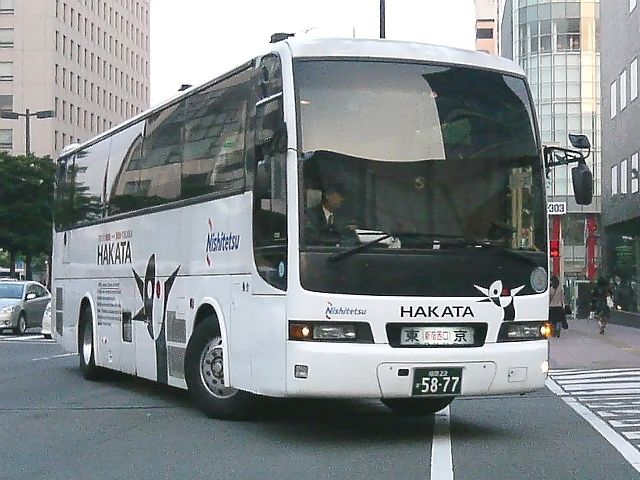 Nishitetsu Highway Bus Hakata-go. See below.